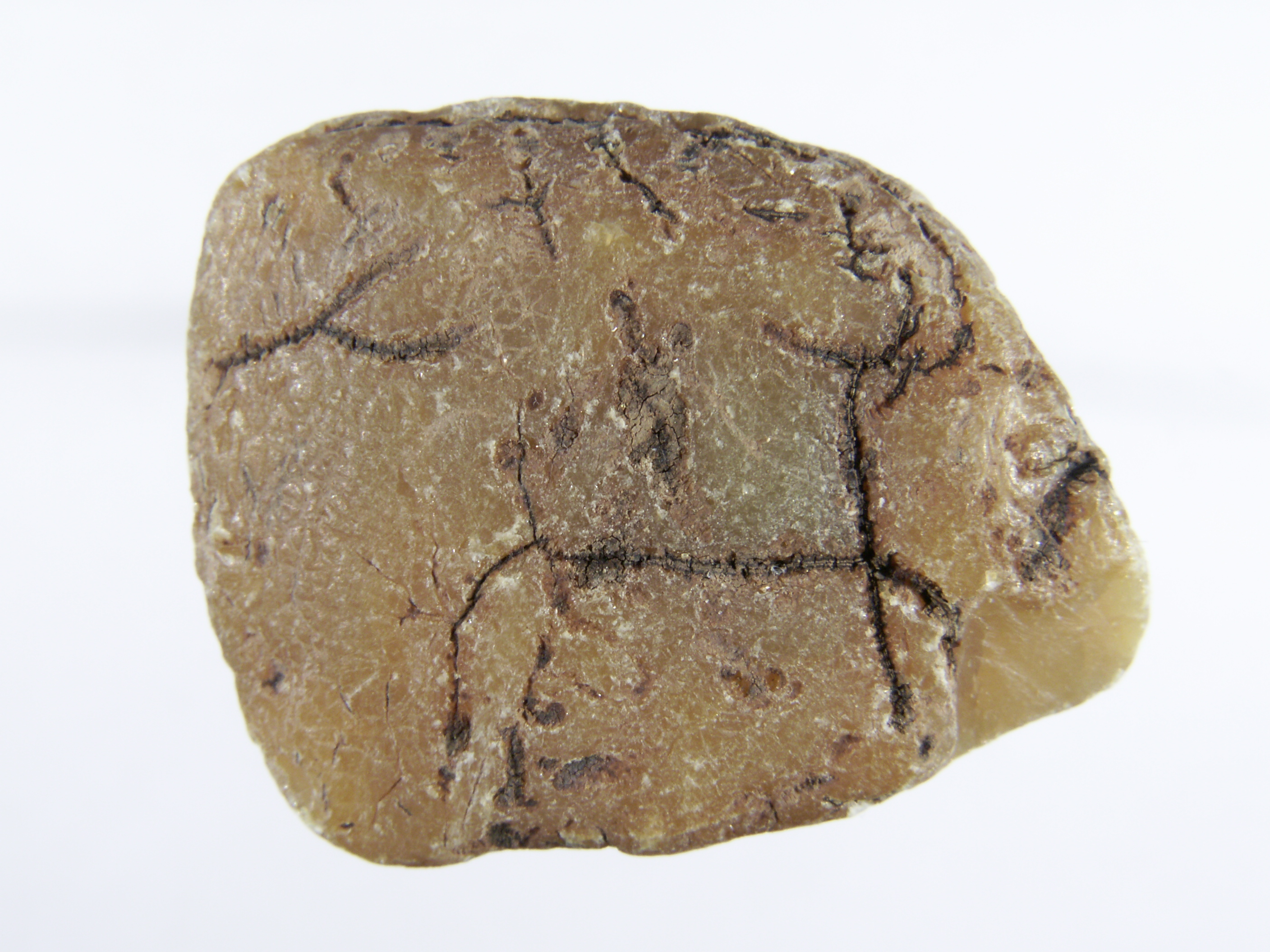 Amber from Bitterfeld, goitschite